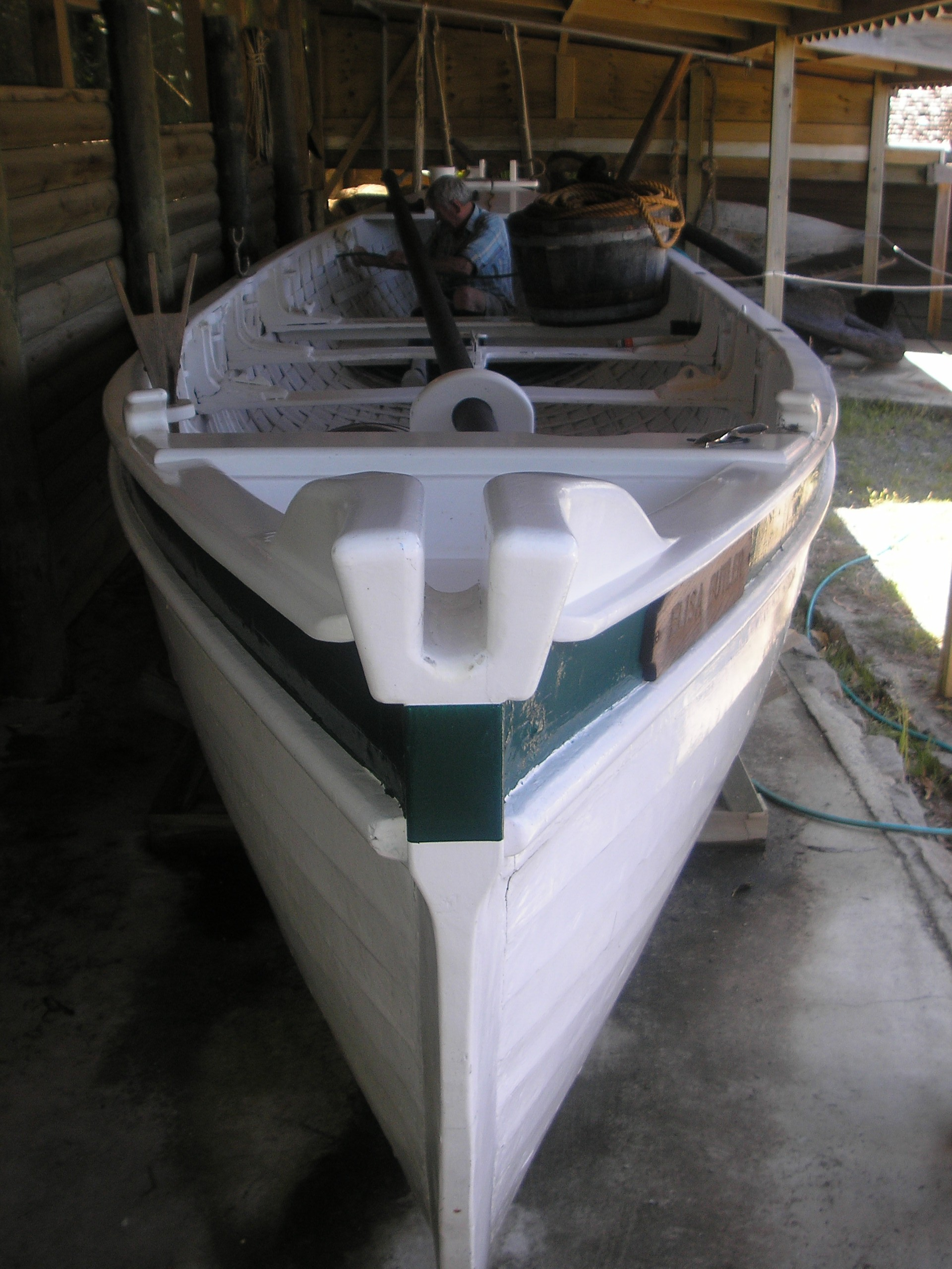 Restored whaling boat, Butler Point Whaling Museum, Hihi, Northland, New Zealand